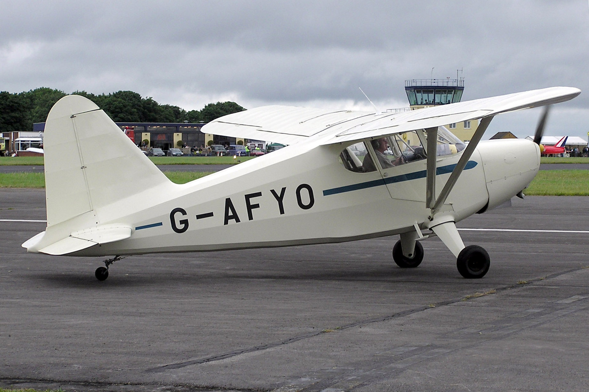 Stinson HW-75 (also called the 105), with UK registration G-AFYO, at Kemble Airfield, Gloucestershire, England. Built 1939. Photographed by Adrian Pingstone in July 2005 and released to the public domain.